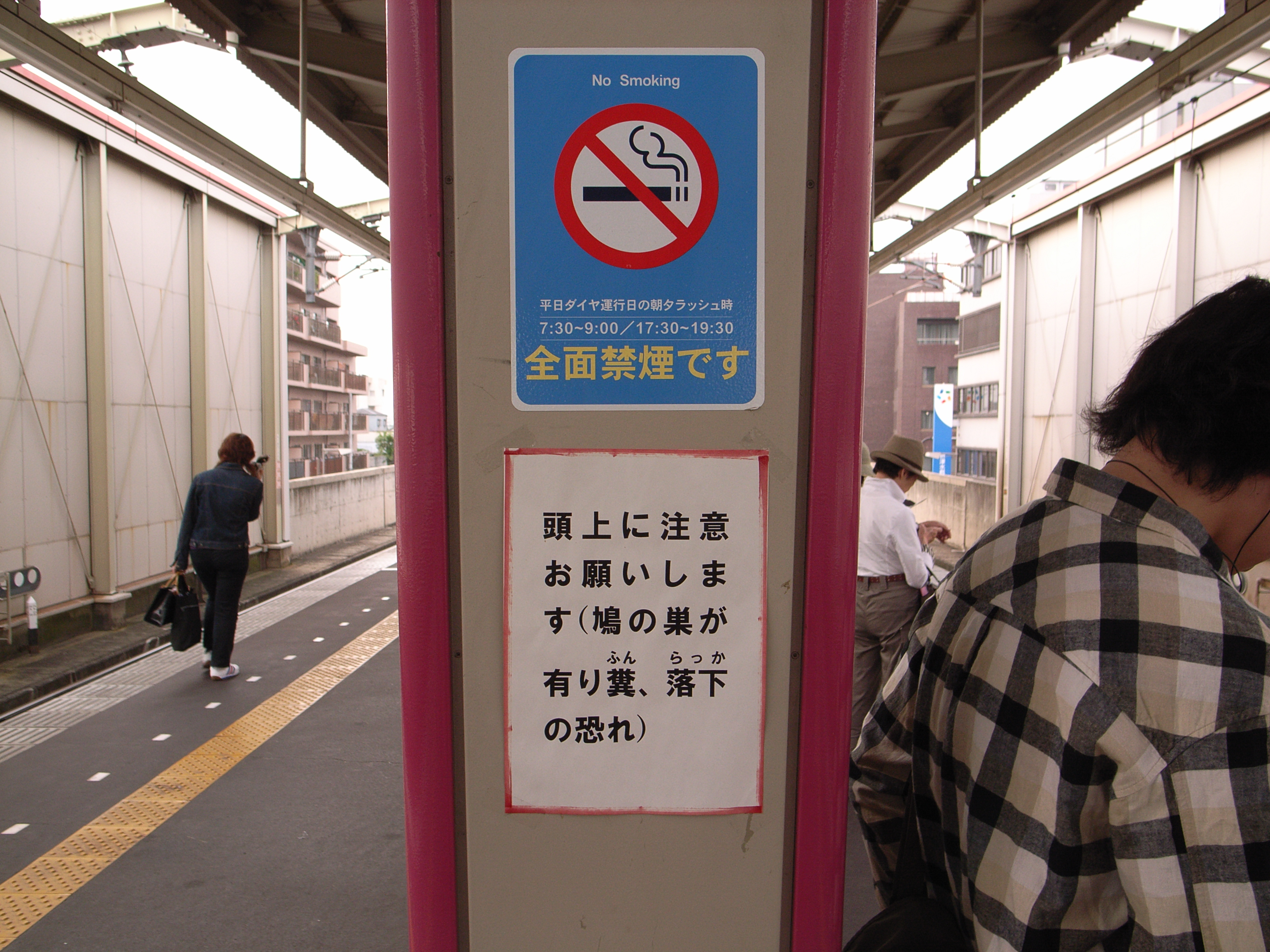 Station